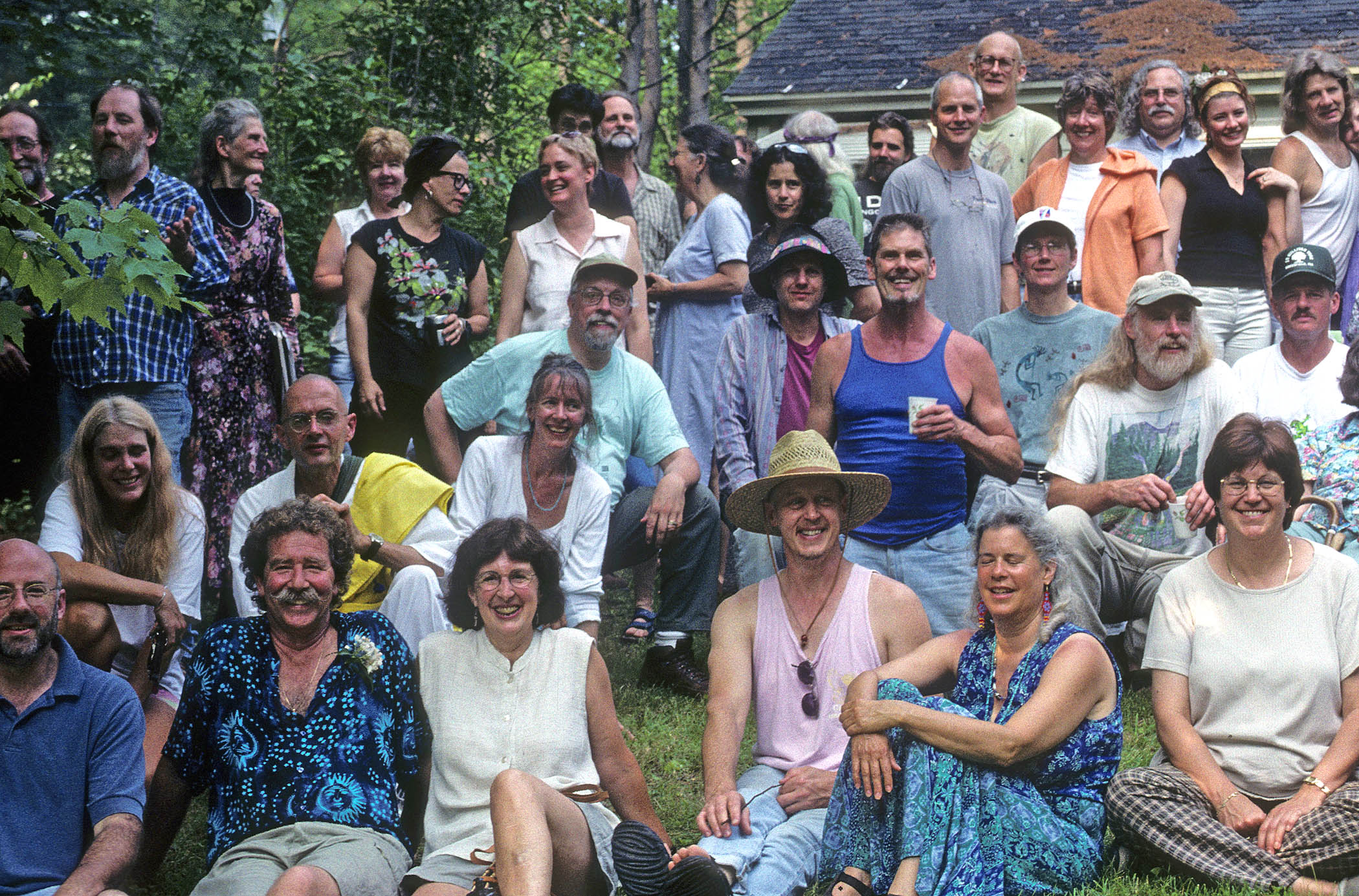 Reunion of members of the Renaissance Community: June 2002